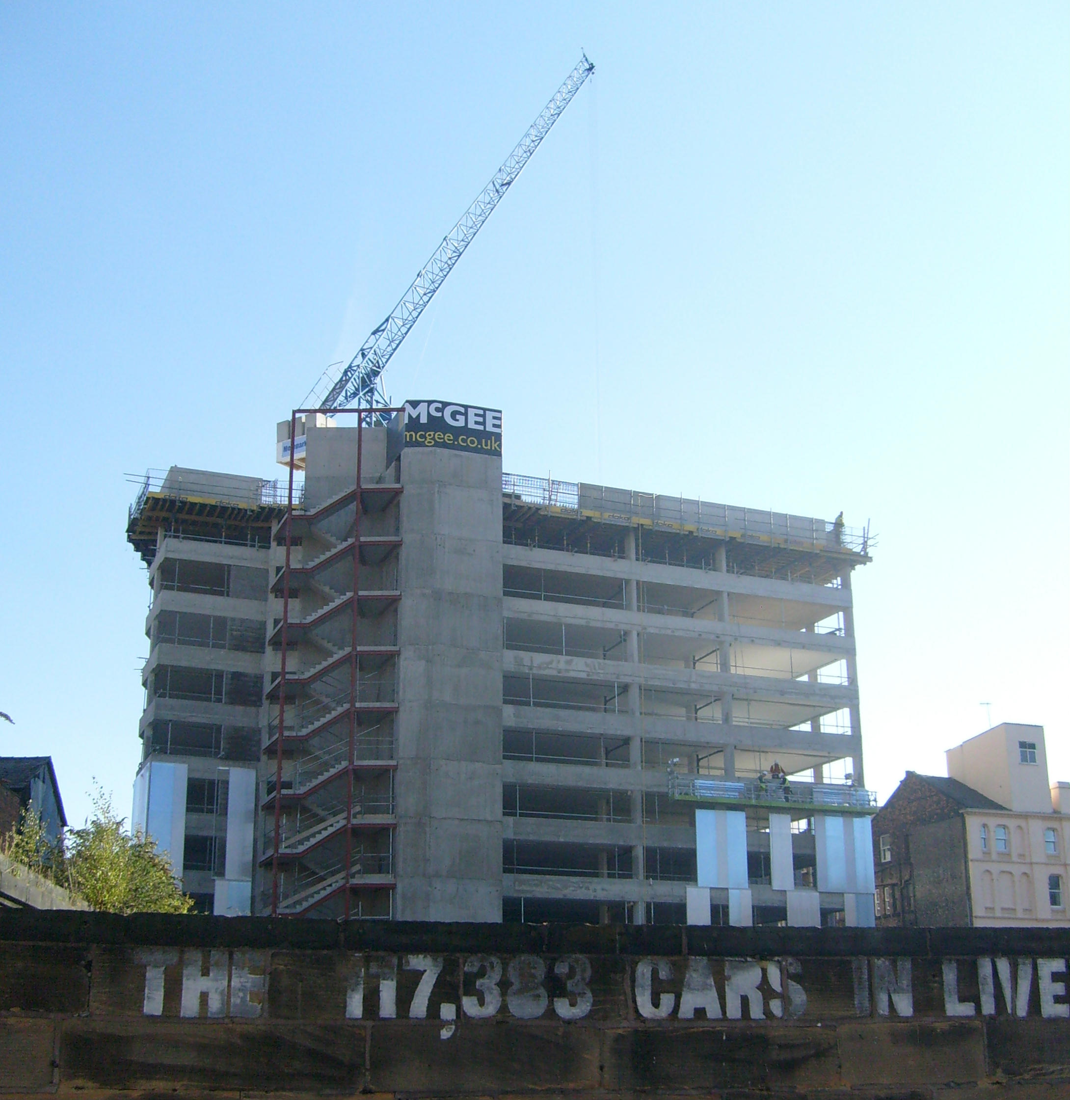 Construction at Central Village.